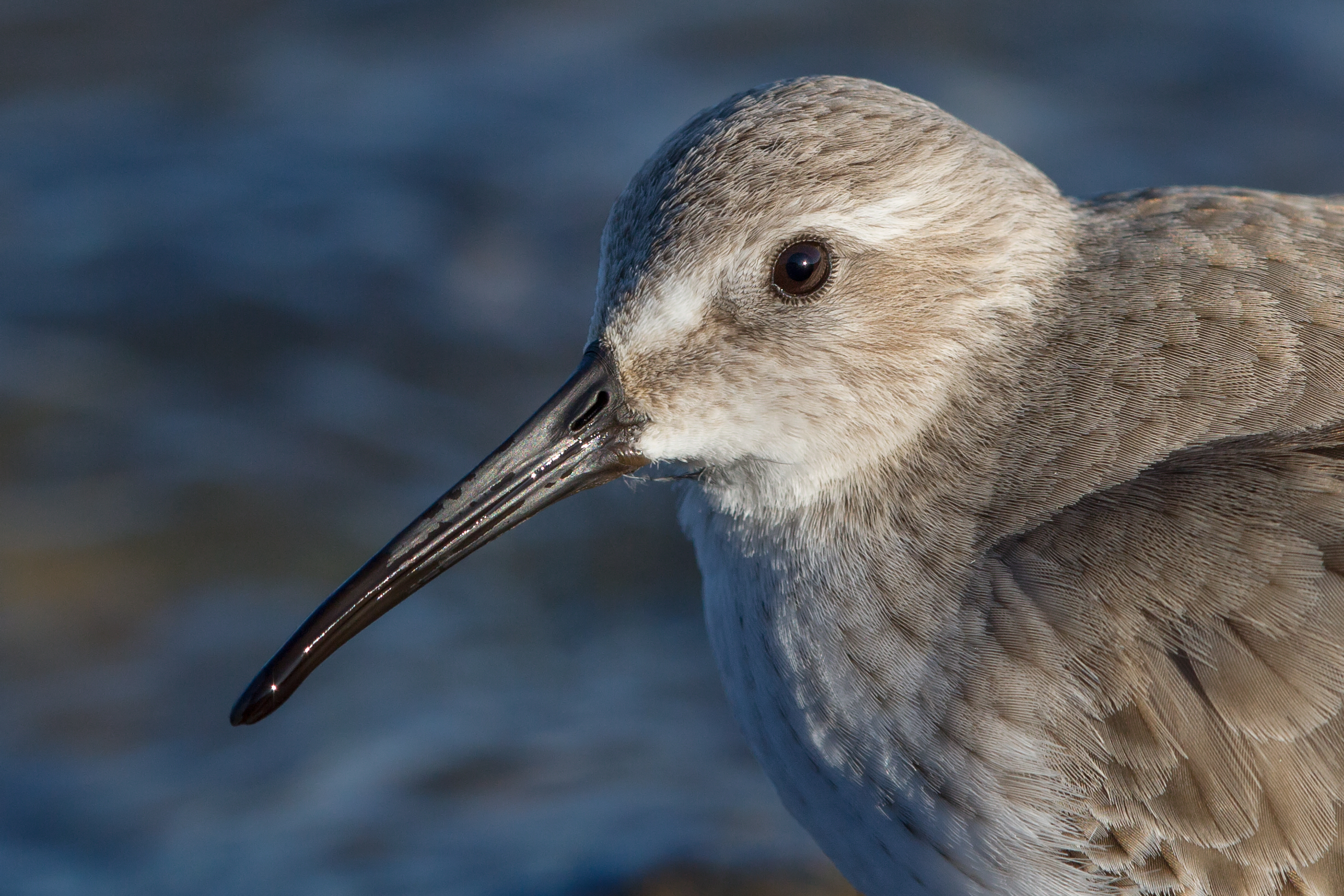 Dunlin. Winter plumage